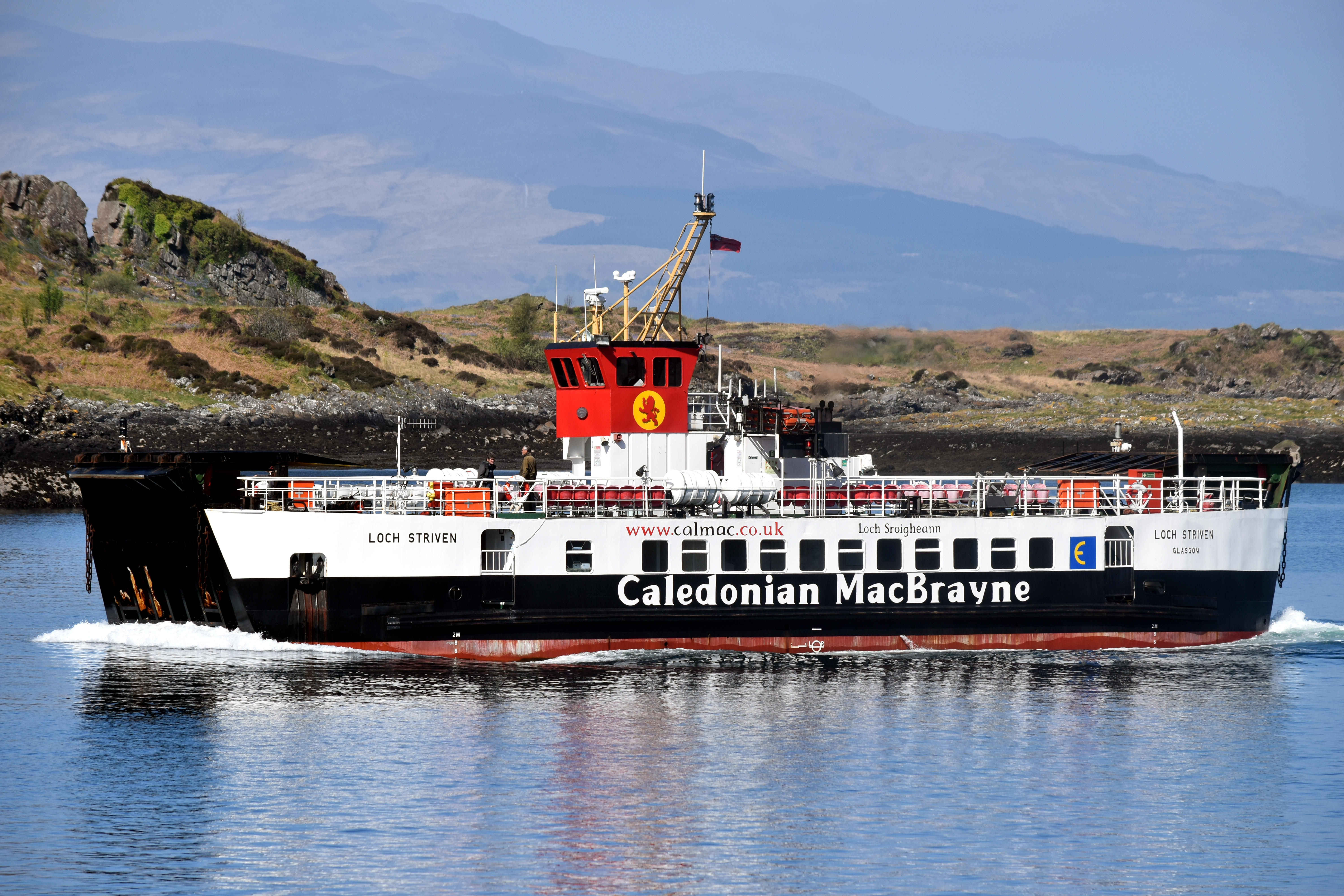 The CalMac ferry MV Loch Striven, which used to serve Cumbrae and Raasay, approaches Oban on one of her regular sailings to and from the island of Lismore, 9 May 2017.